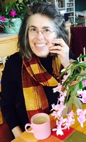 Helen Epstein 2017